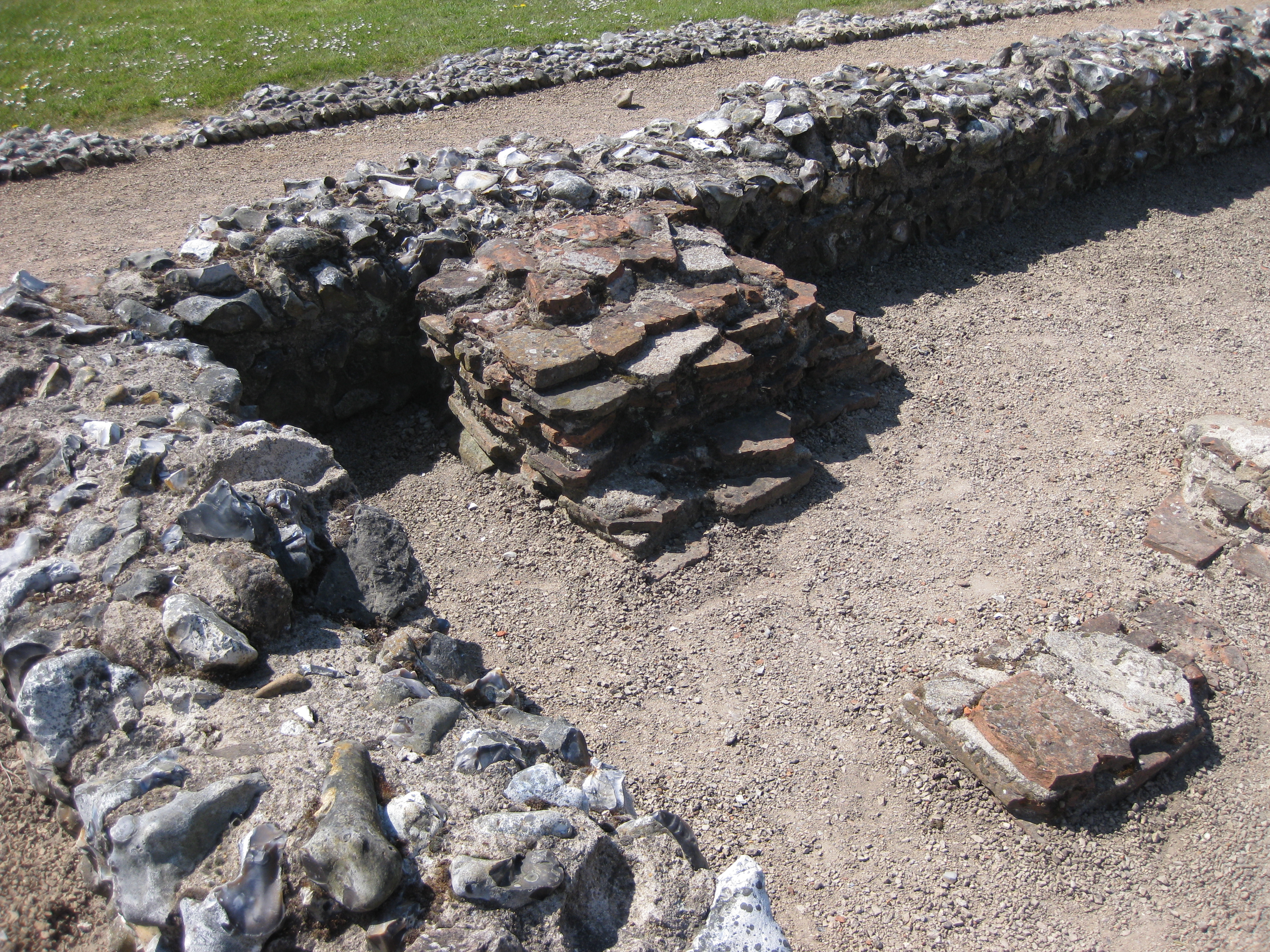 Detail of remaining stonework at Caister-on-Sea Roman site